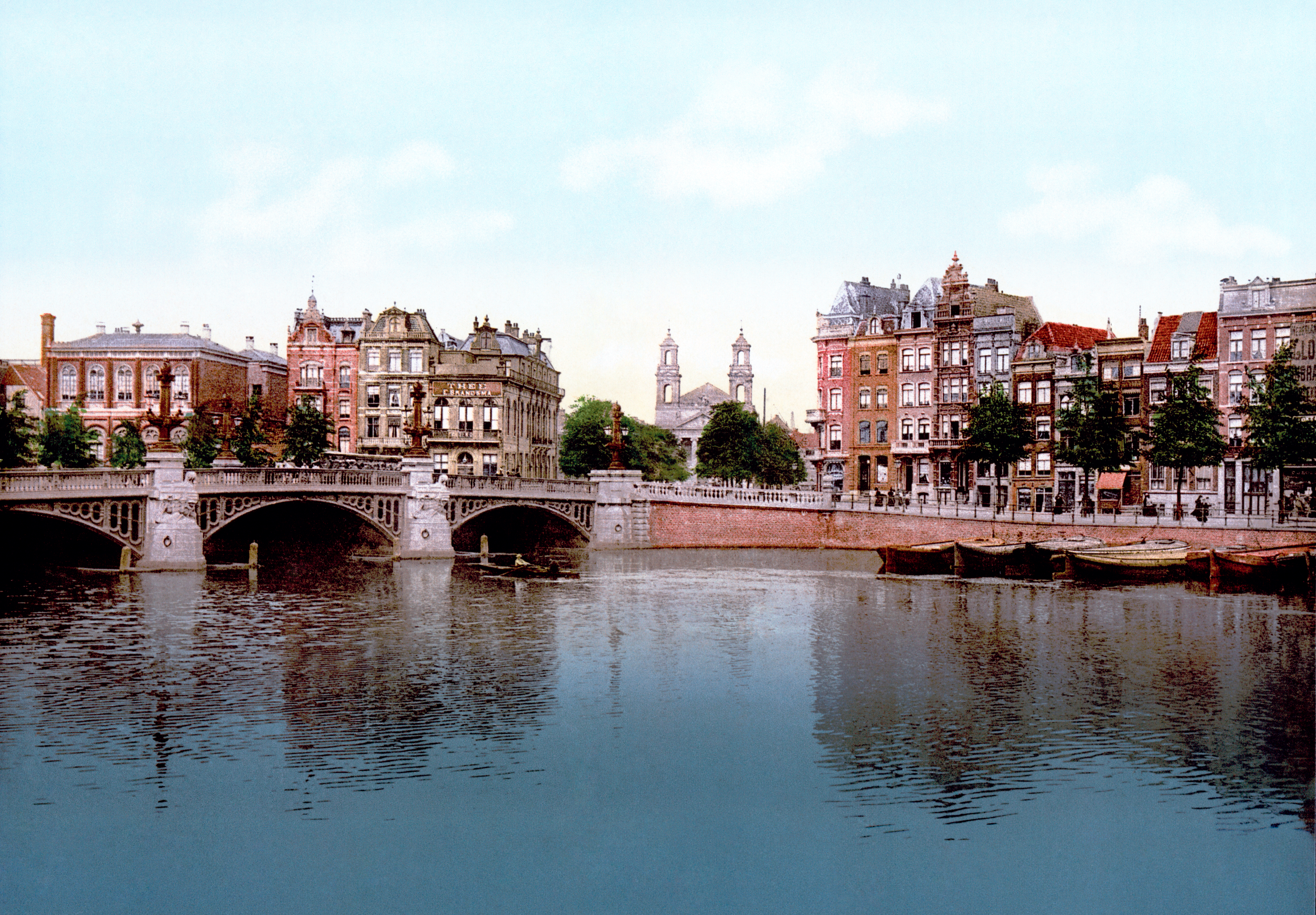 Blauwbrug, in the Netherlands